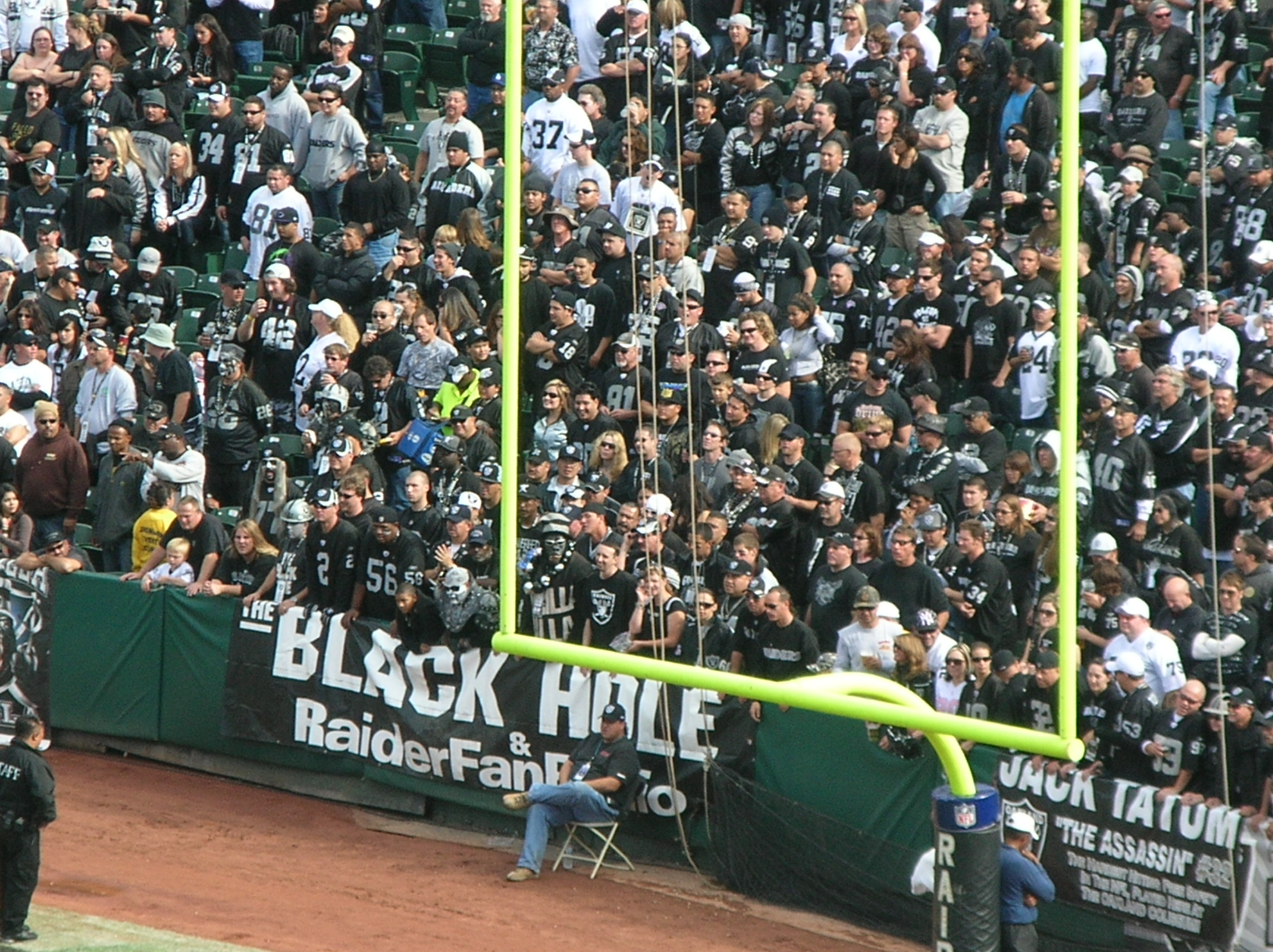 The Black Hole at the Oakland Coliseum during an Oakland Raiders home game against the Atlanta Falcons. The Falcons won 24-0.